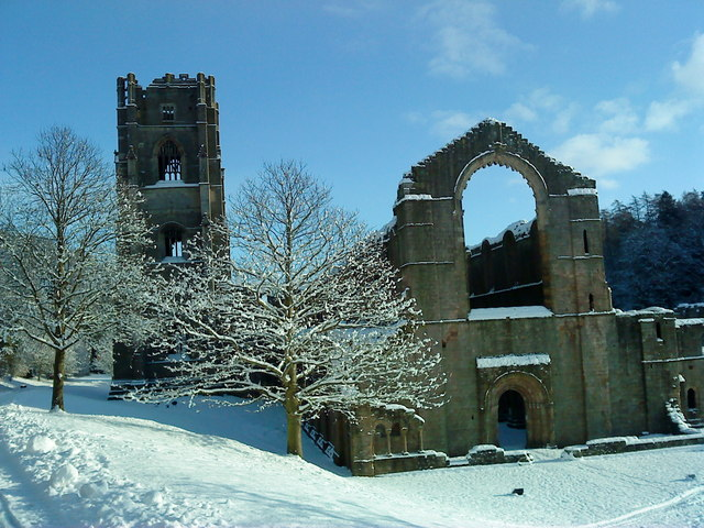 Calendar Shot Wintery picture of Fountains Abbey.